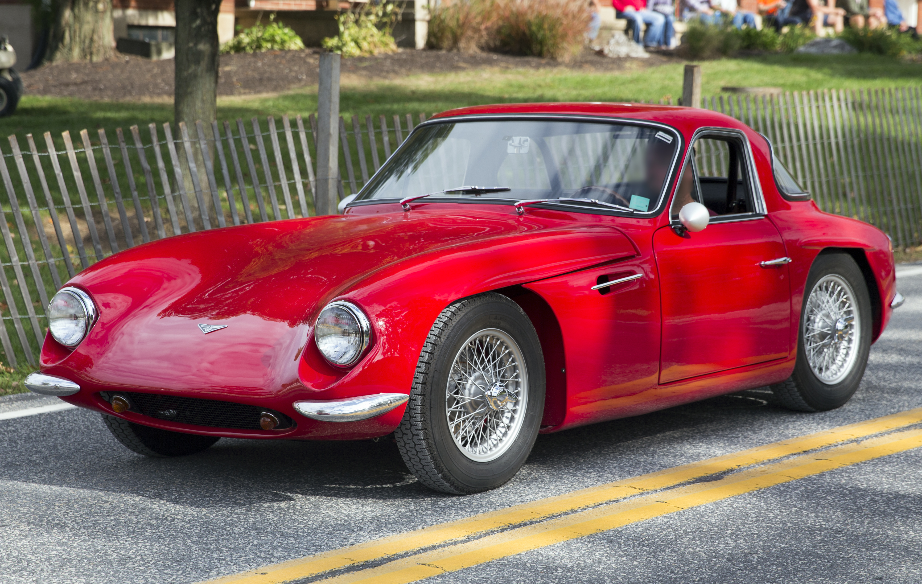 A 1961 TVR Grantura Mark IIA in the exit parade at Hershey 2019. These were sold as Jomars in the United States; not sure where this one was originally delivered.